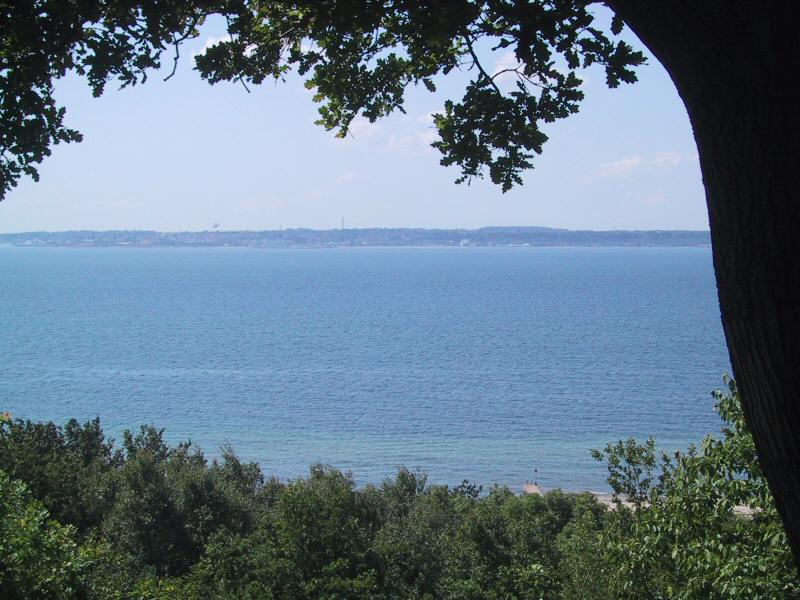 View over Öresund from northern Helsingborg Picture taken by User:Abelson in June 2003.